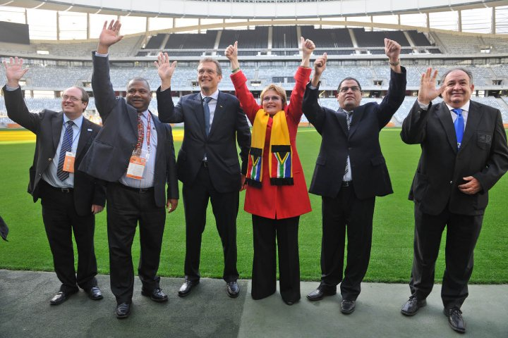 DA Leader and Western Cape Premier Helen Zille, along with Cape Town mayor Dan Plato, Cape Town deputy mayor Ian Neilson and other government and FIFA officials at the handover of the Cape Town Stadium